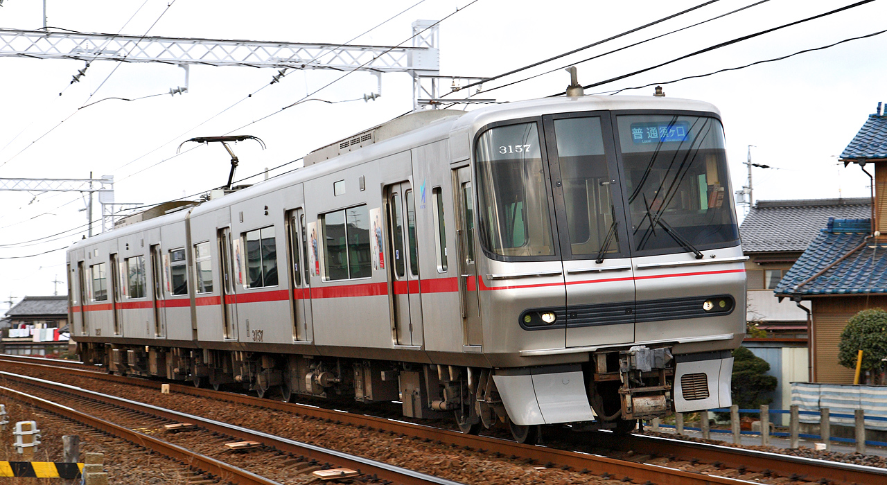 Meitetsu 3150 series EMU set 3157 between Kisogawazutsumi and Kuroda stations